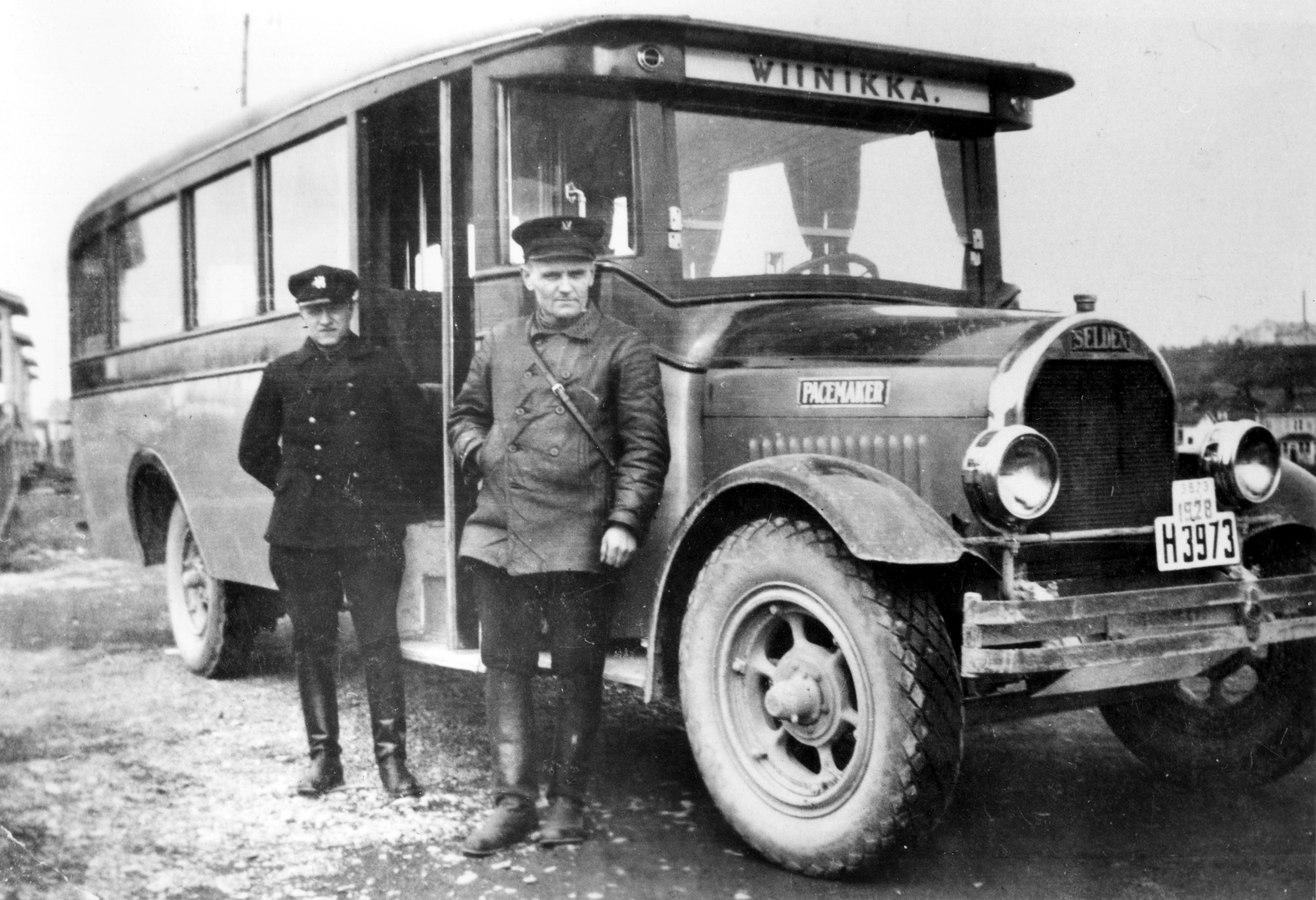 Soldan -bus 1928.